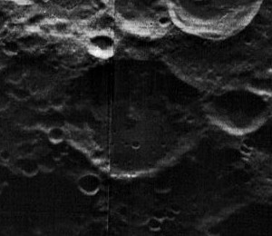 Oblique view of Dyson, on the far side of the moon, facing southwest.